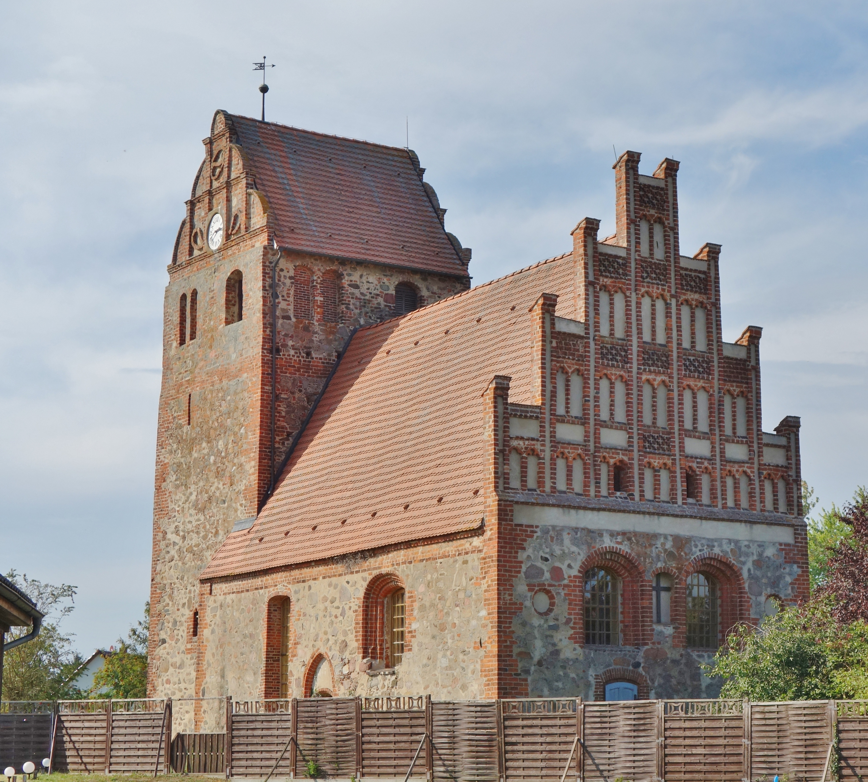 Eastern view of church in Wulfersdorf, Wittstock municipality, Ostprignitz-Ruppin district, Brandenburg state, Germany